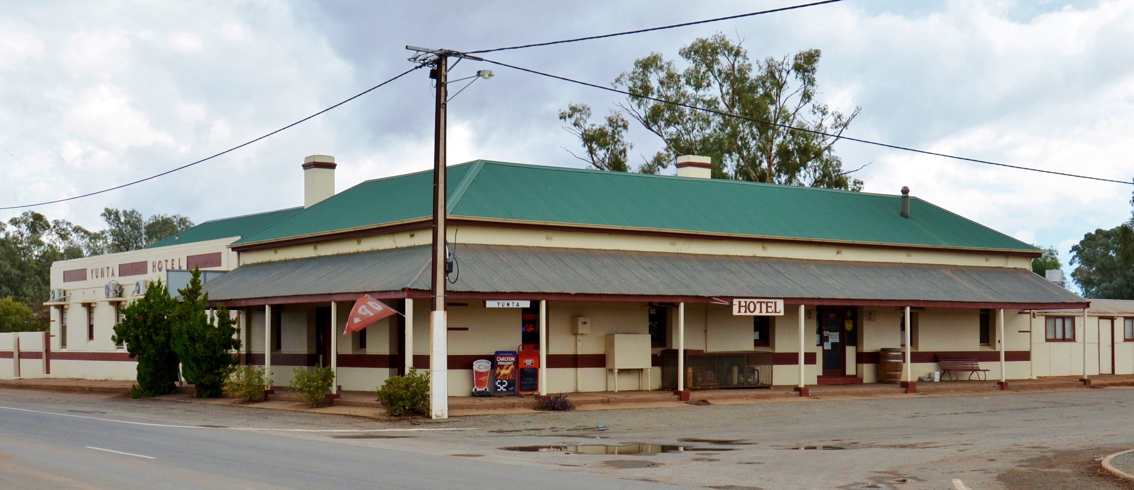 View of the Yunta Hotel, Yunta, South Australia